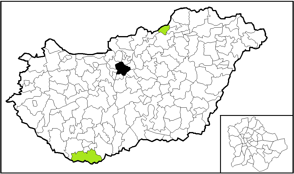 Candidates by minor parties on the 2010 Hungarian parliamentary election: the FKGP ██ = Candidate accepted by the Local Elections Comitee, No territorial list